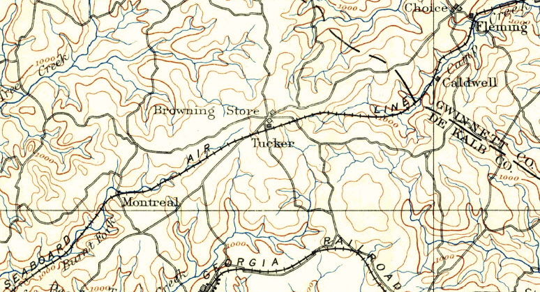 Portion of Georgia, Atlanta Sheet, United States Department of the Interior Geological Survey showing Tucker, Georgia. Map contains survey conducted in 1887-1888 with NAD27, and printed in 1955.